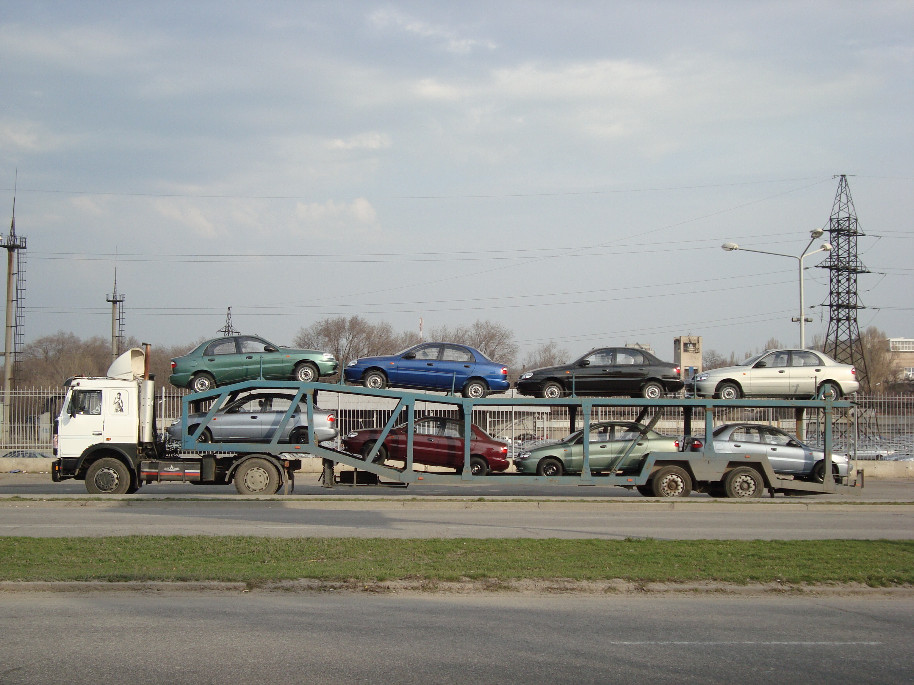 Semi-trailer truck "MAZ" loaded with Daewoo Lanos automobiles.